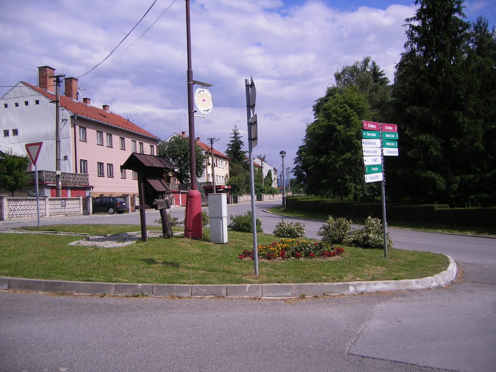 Lipovec - street view